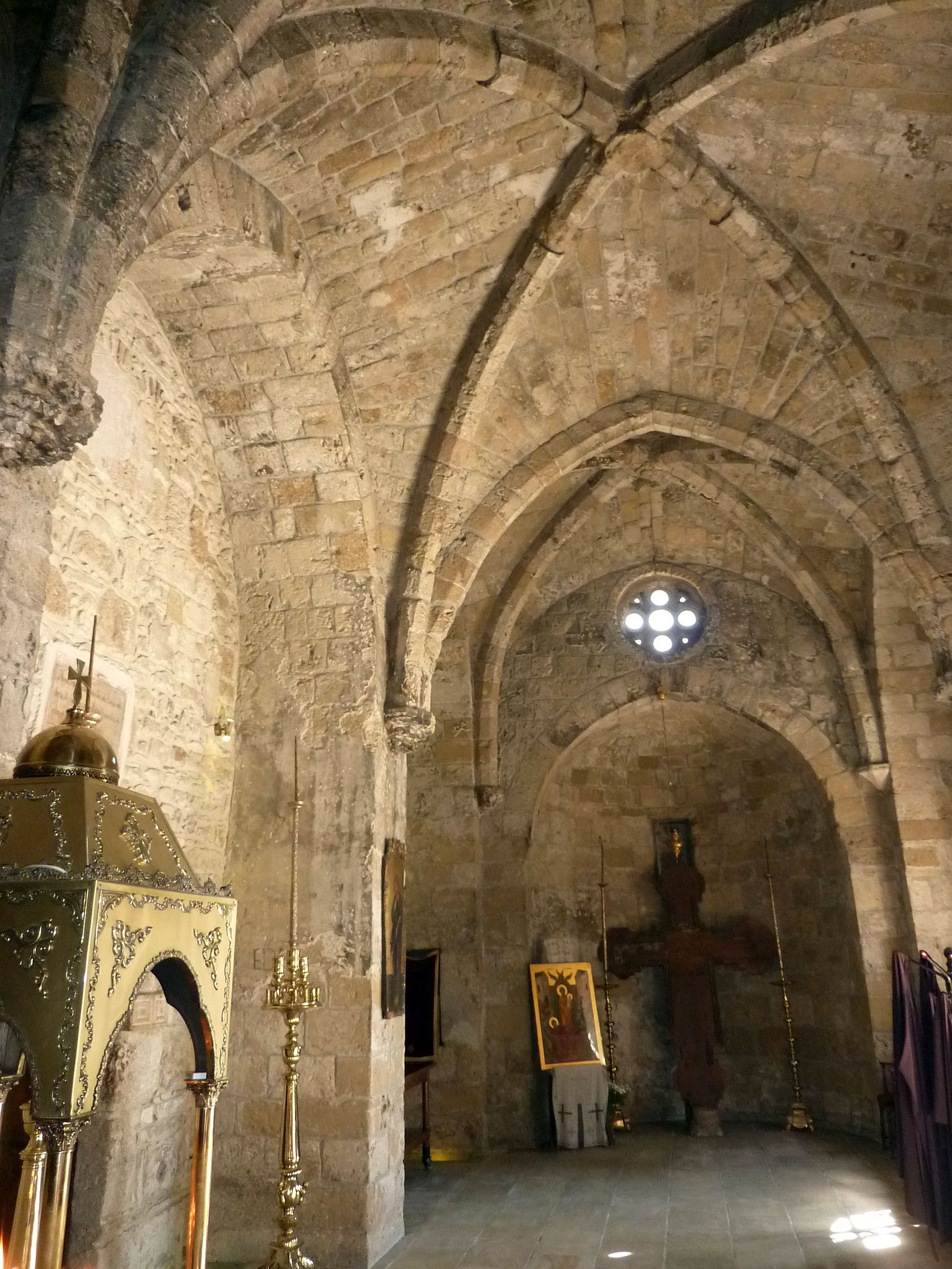 Gothic chapel of Panagia Aggeloktisti, Kiti